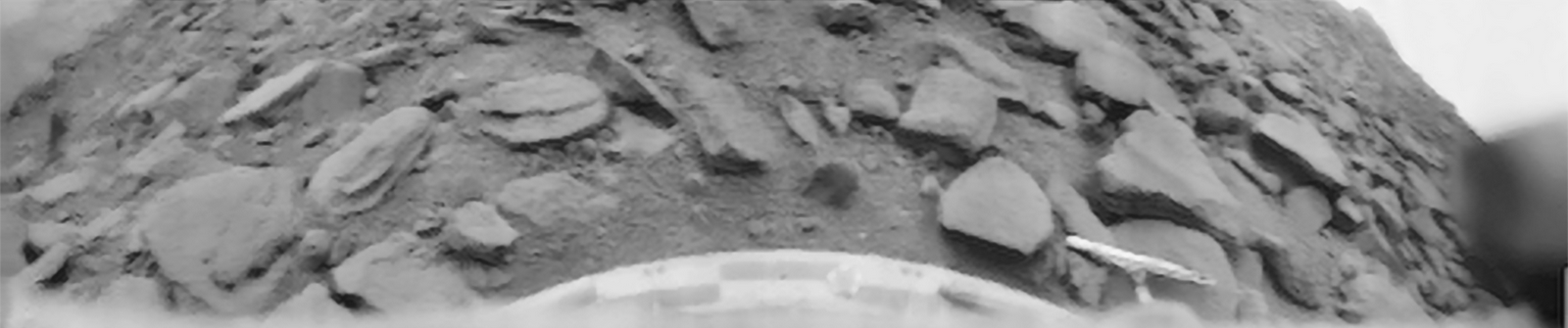 Photography of venusian surface by Venera 9.Sardu: Sa fotografia est fata cun sa camera de su lander Venera 9. Sa camera no si fiat oberta beni po mori de sa pressioni me in sa superfitzi de Vènere. Est su propiu sa prima foto fata a pitzu de sa superfitzi de un'atru praneta.